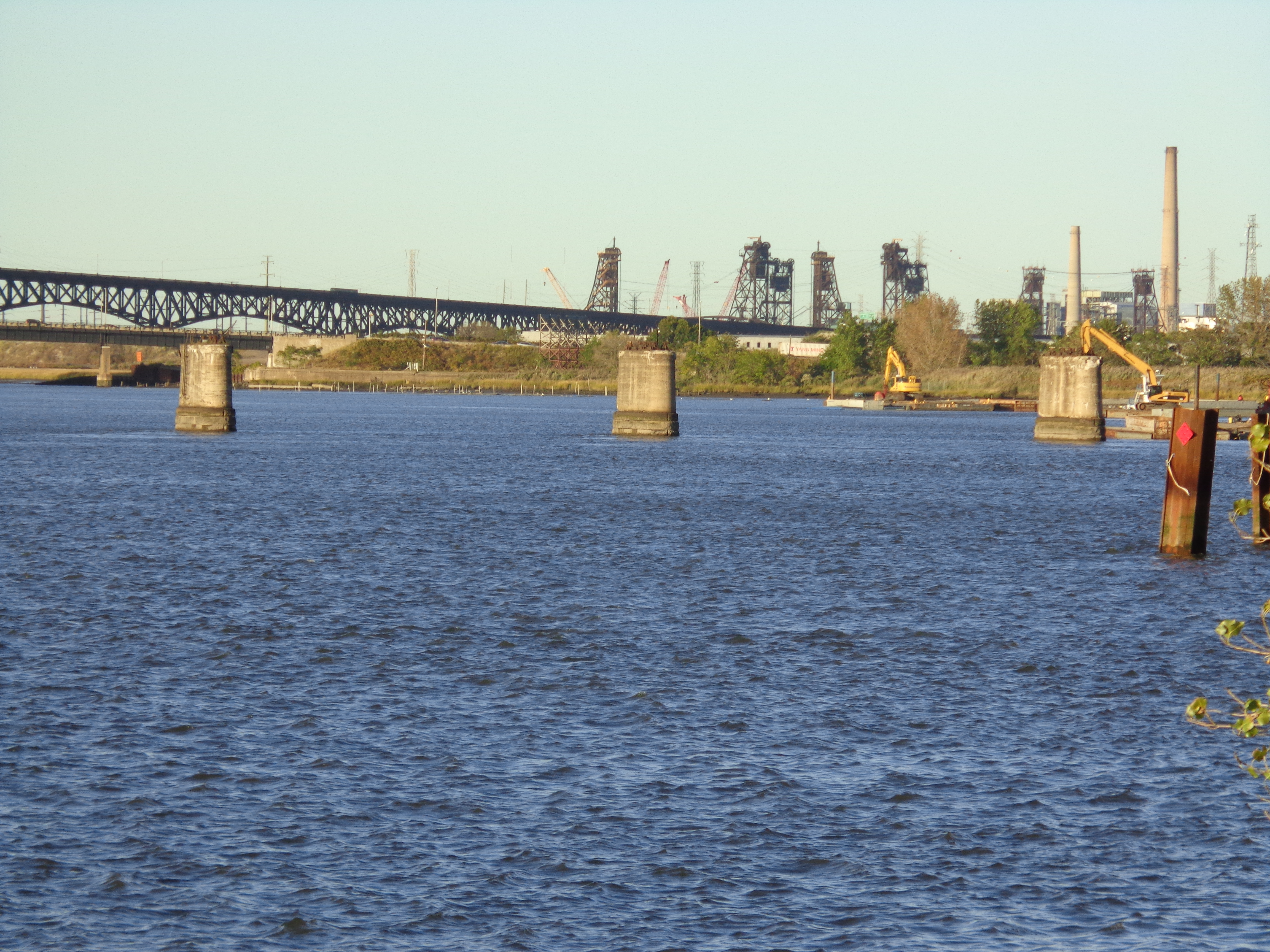 Hackensack Drawbridge originally Newark and New York RR (Central of New Jersey) over the Hackensack River (Jersey City to Kearny Point) 1869-1946 until hit by collier and decommissioned